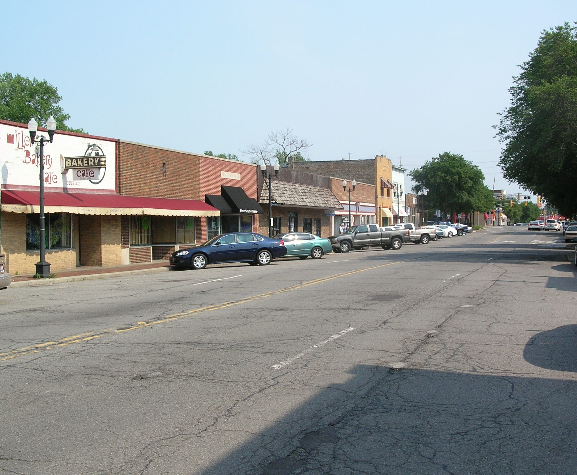 The southern end of the traditional downtown business district in the Miller Beach neighborhood of eastern Gary, Indiana.